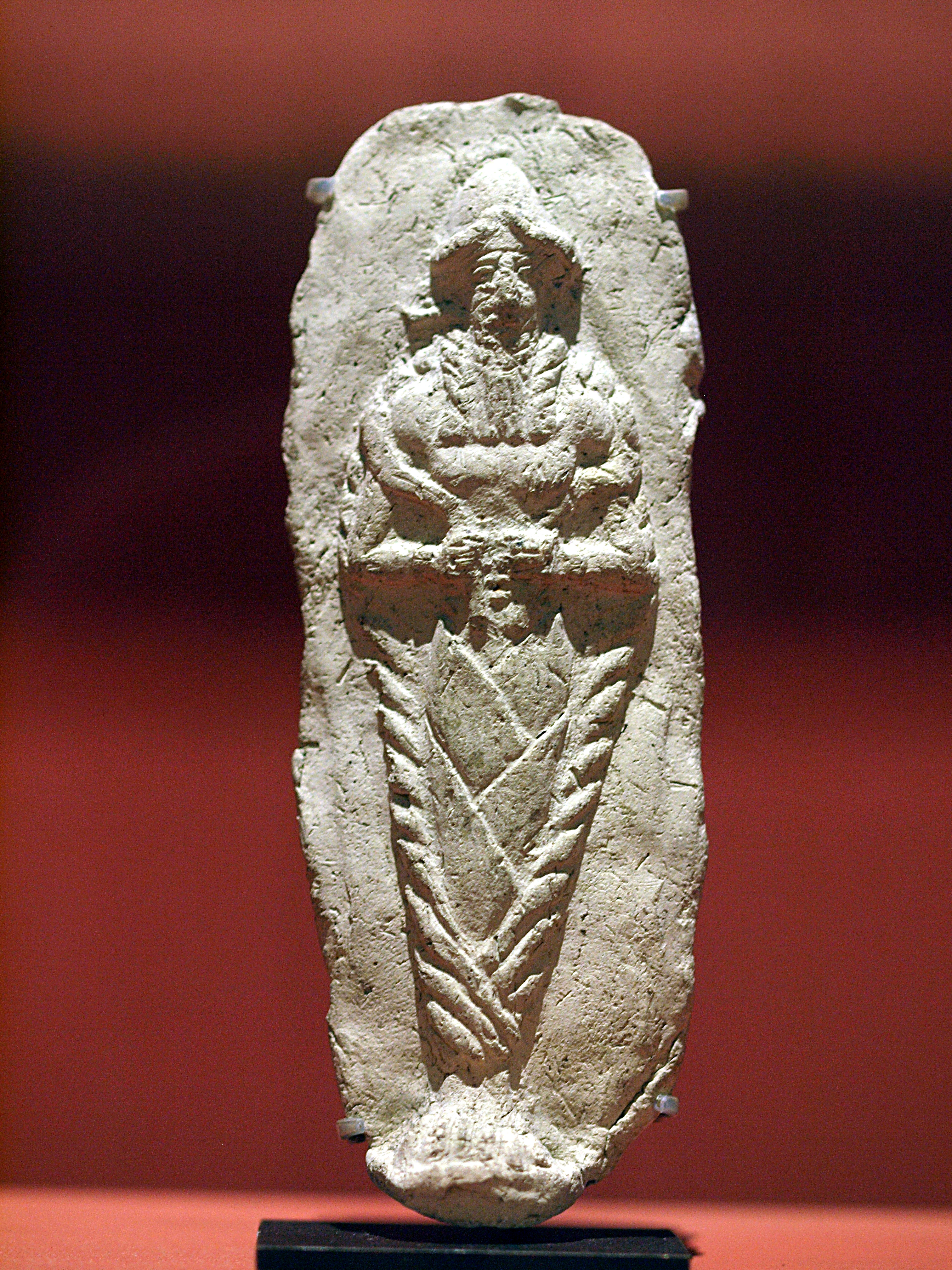 Plaquette representing a dead god in his coffin Probably Dumuzi Amorit Period around 2000-1600 BC Terracotta Museum of the Louvre OA8823